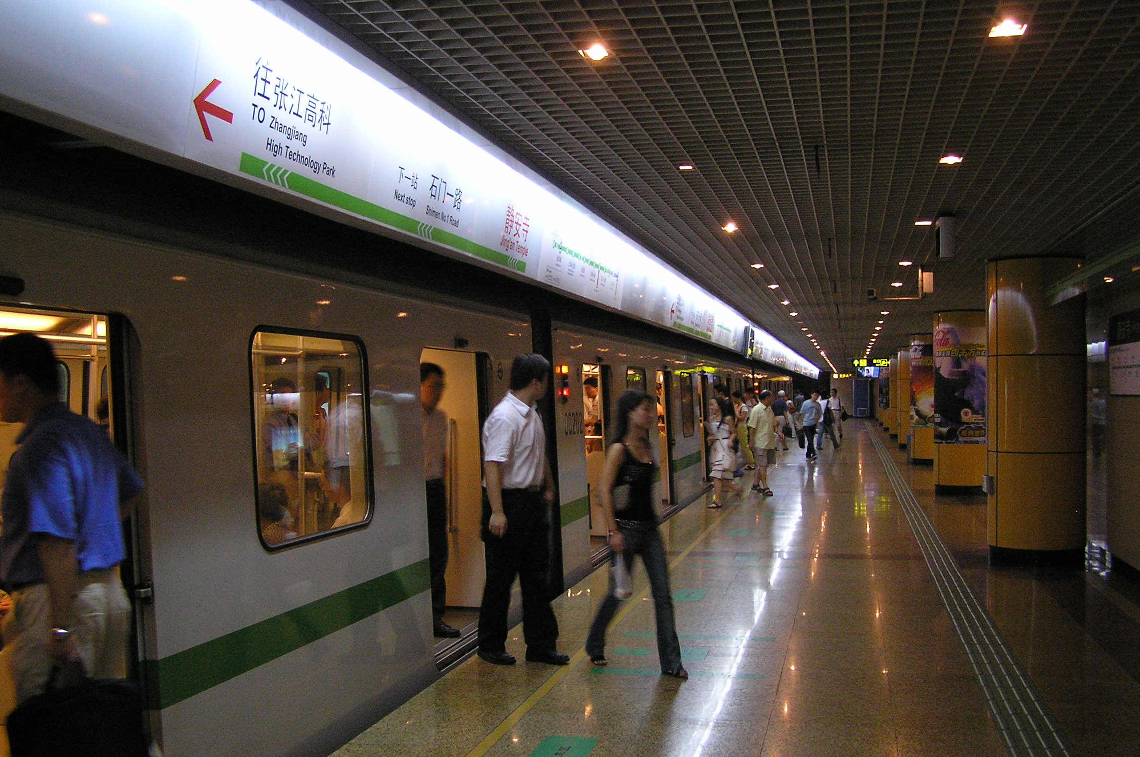 Jing'an Temple Subway Station. Line 2. Shanghai, China